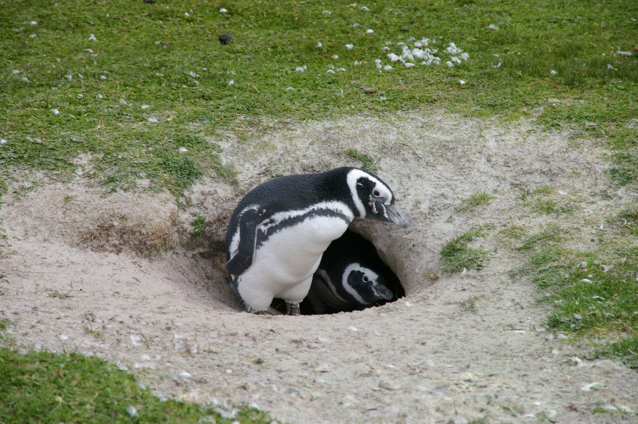 Magellanic Penguins (Spheniscus magellanicus), East Falkland